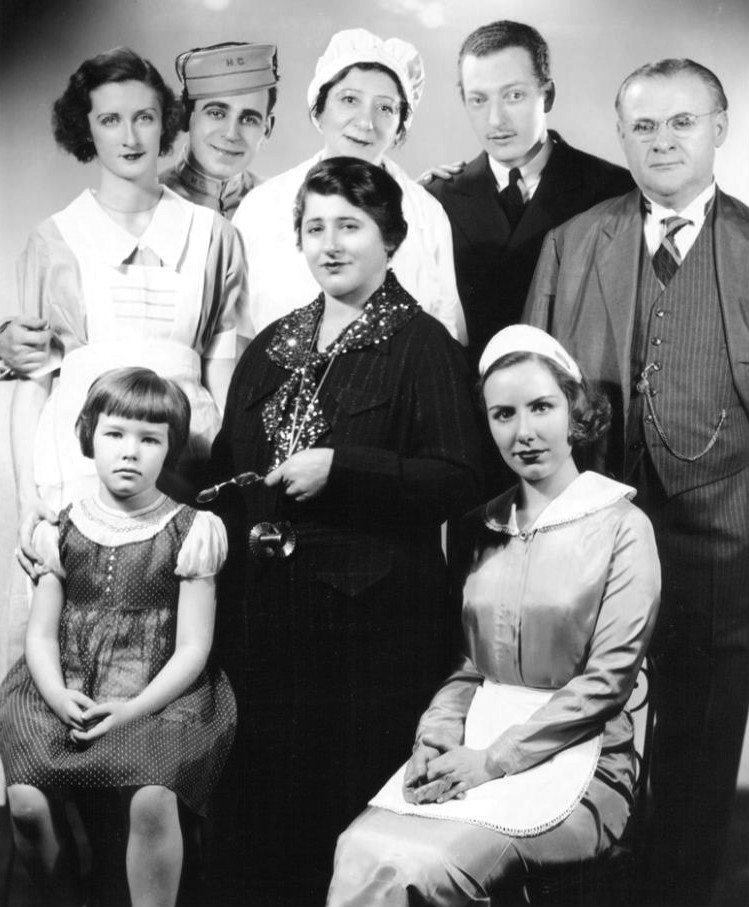 Publicity photo of the cast of The House of Glass, a short-lived radio show by Gertrude Berg. Berg played the owner of a hotel. Cast: standing, rear-Arline Blackburn, Paul Stewart, Bertha Walden, Everett Sloane, Joseph Greenwald. Center-Gertrude Berg. Seated-Celia Babcock, Helene Dumas. The program premiered on NBC Radio 17 April 1935.